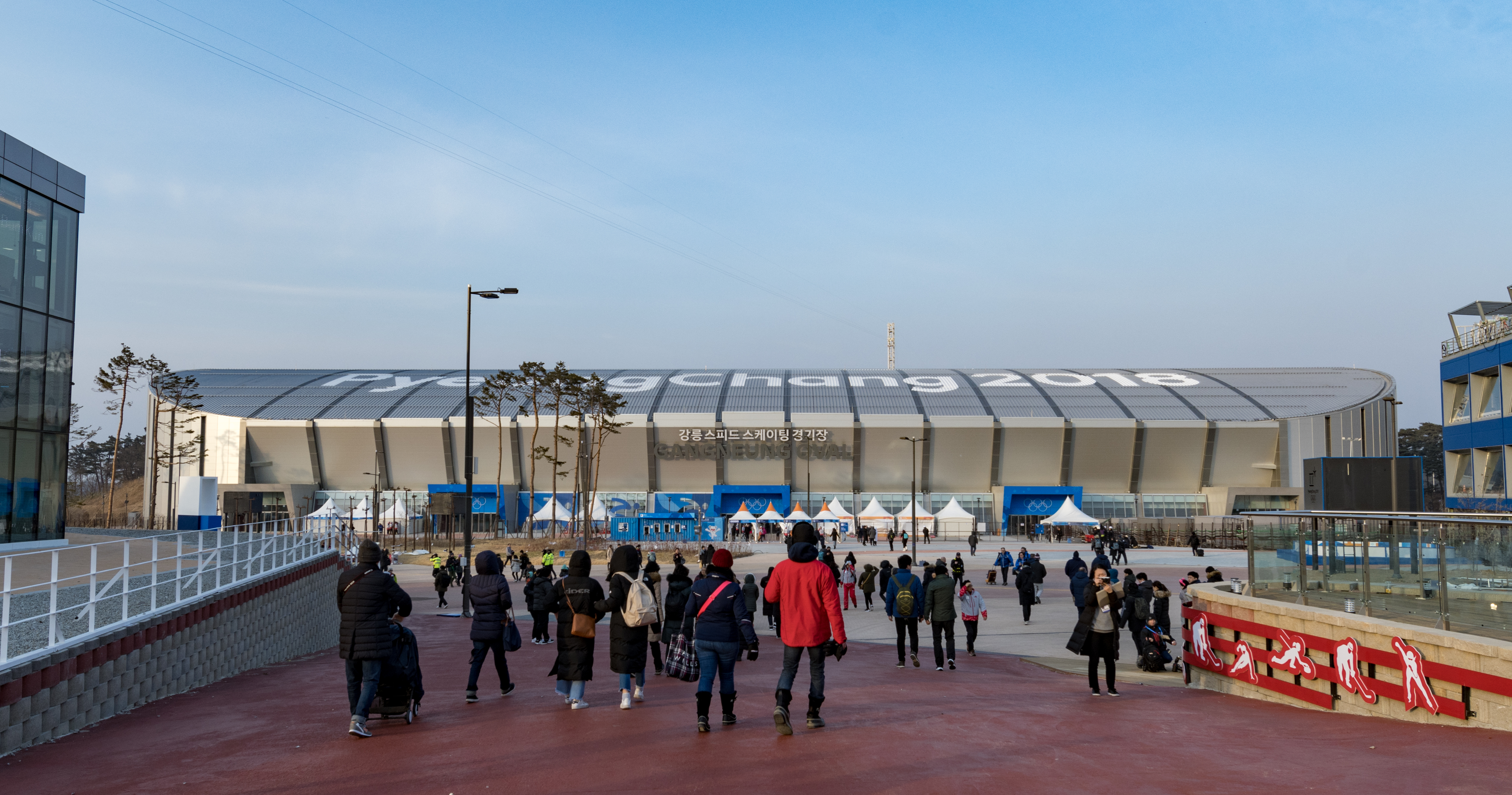 Gangneung Oval during the 2018 Winter Olympics